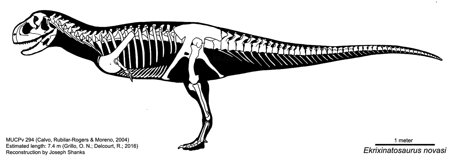 Skeletal diagram of Ekrixinatosaurus novasi.